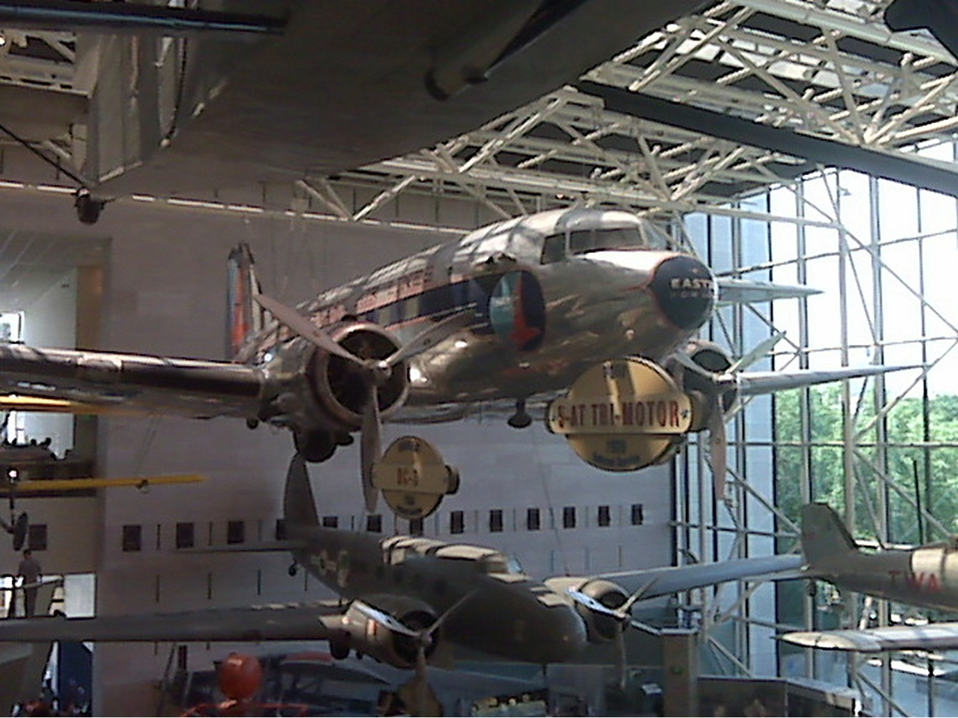 A former Eastern Air Lines Douglas DC-3, suspended from the ceiling at The Smithsonian Institution's "National Air and Space Museum" in Washington, DC.